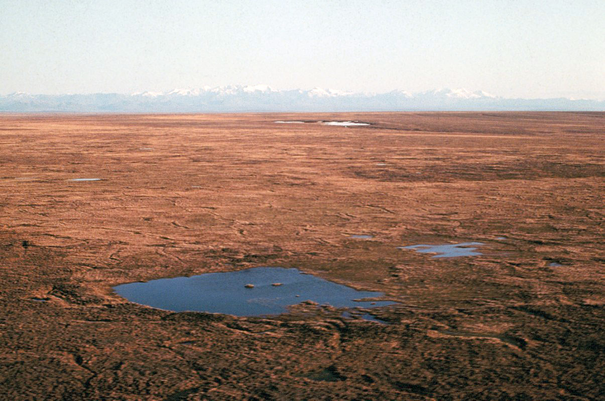 1002 Area: Tundra looking south toward Brooks Range, Alaska